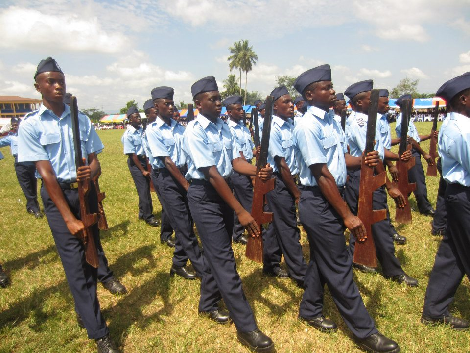 The cadet of POJOSS on parade